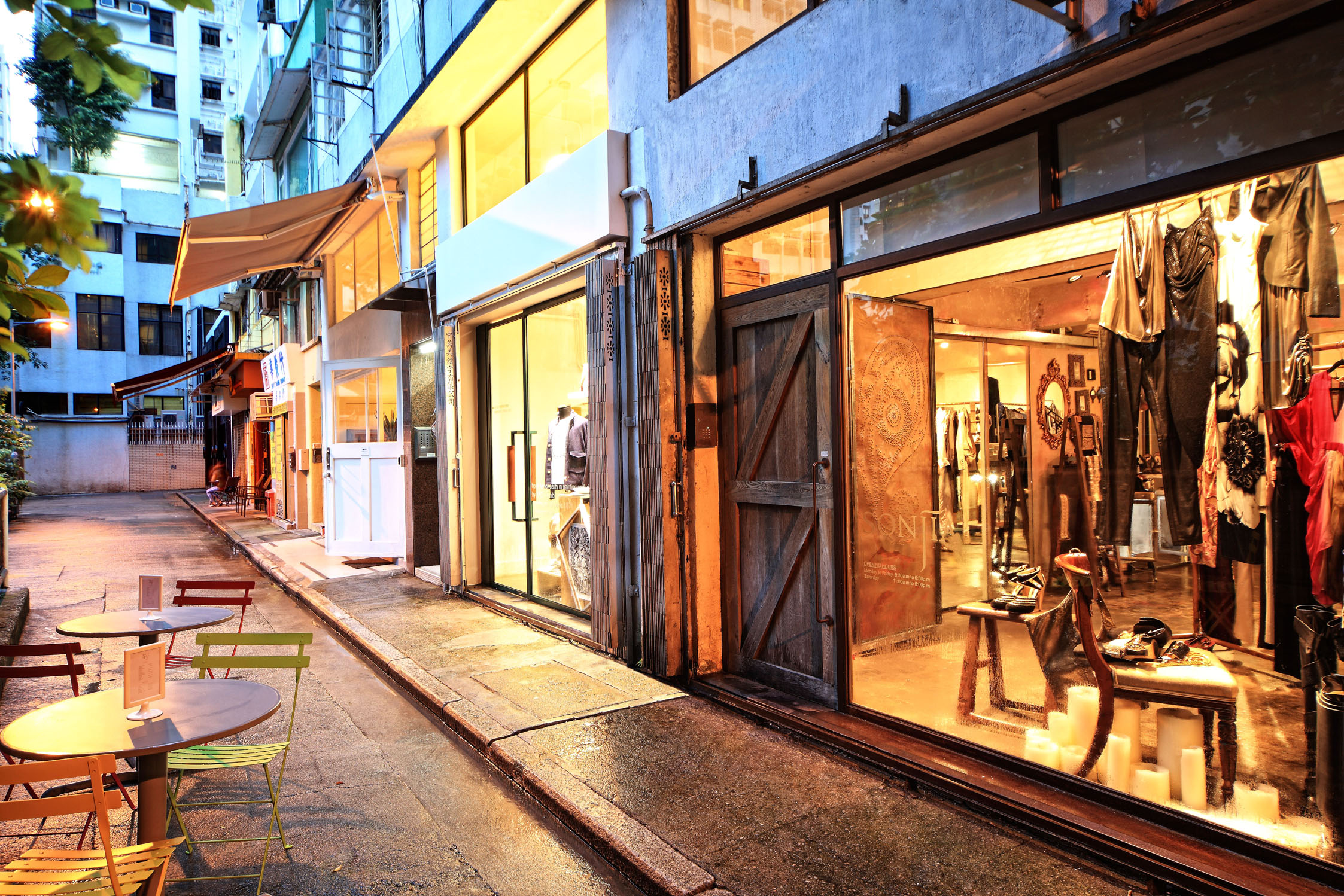 Sun Street